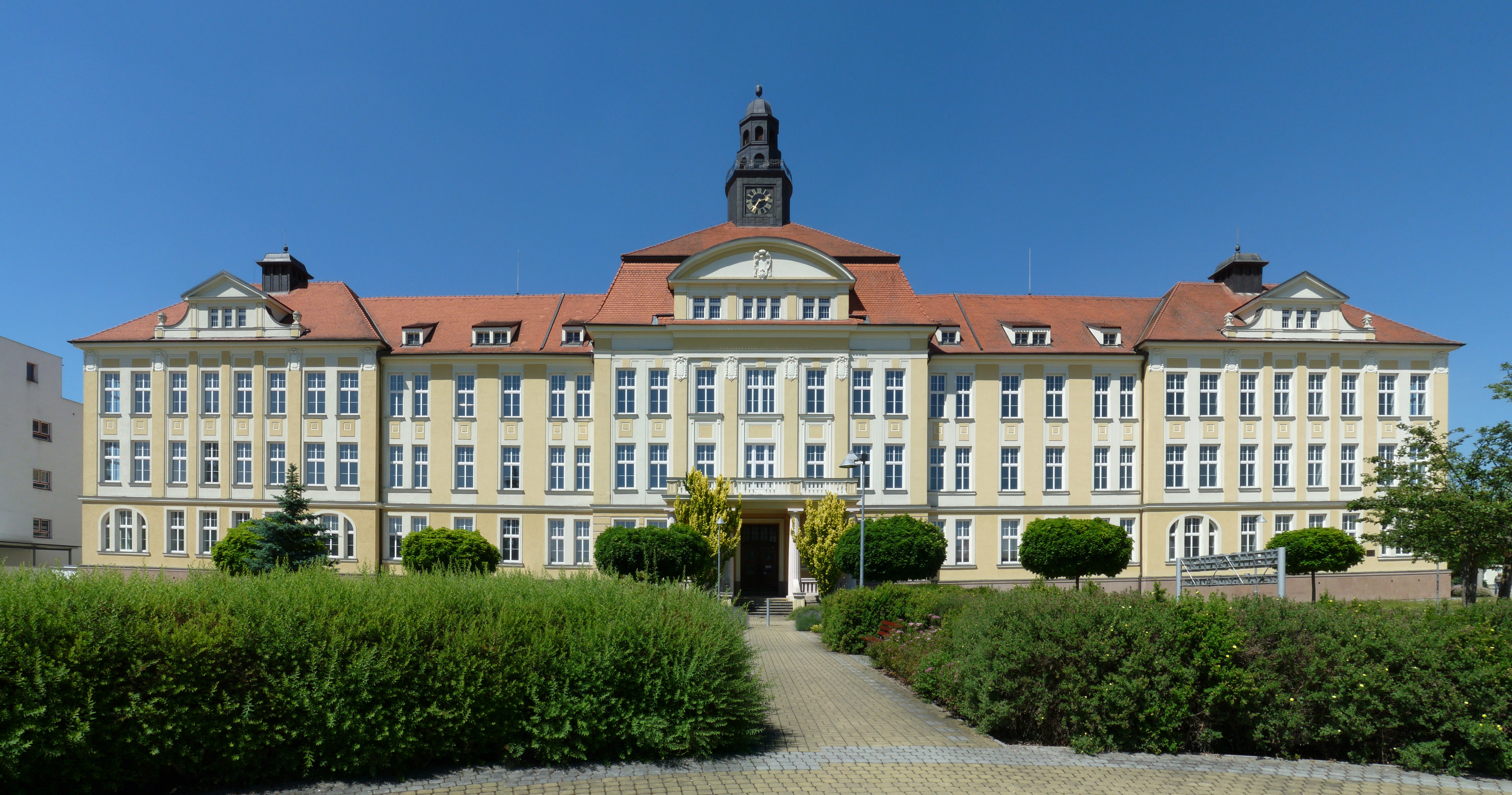 Building T1 of the hospital in České Budějovice, South Bohemian Region, Czech Republic.